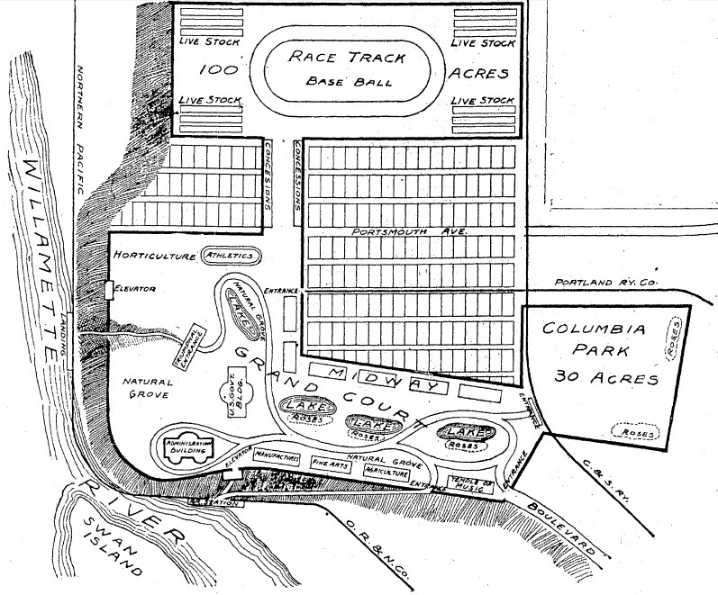 University Park was considered by the Lewis & Clark Centennial Exposition Committee. It was eventually rejected in favor of Guild's Lake, another location in Portland, Oregon.